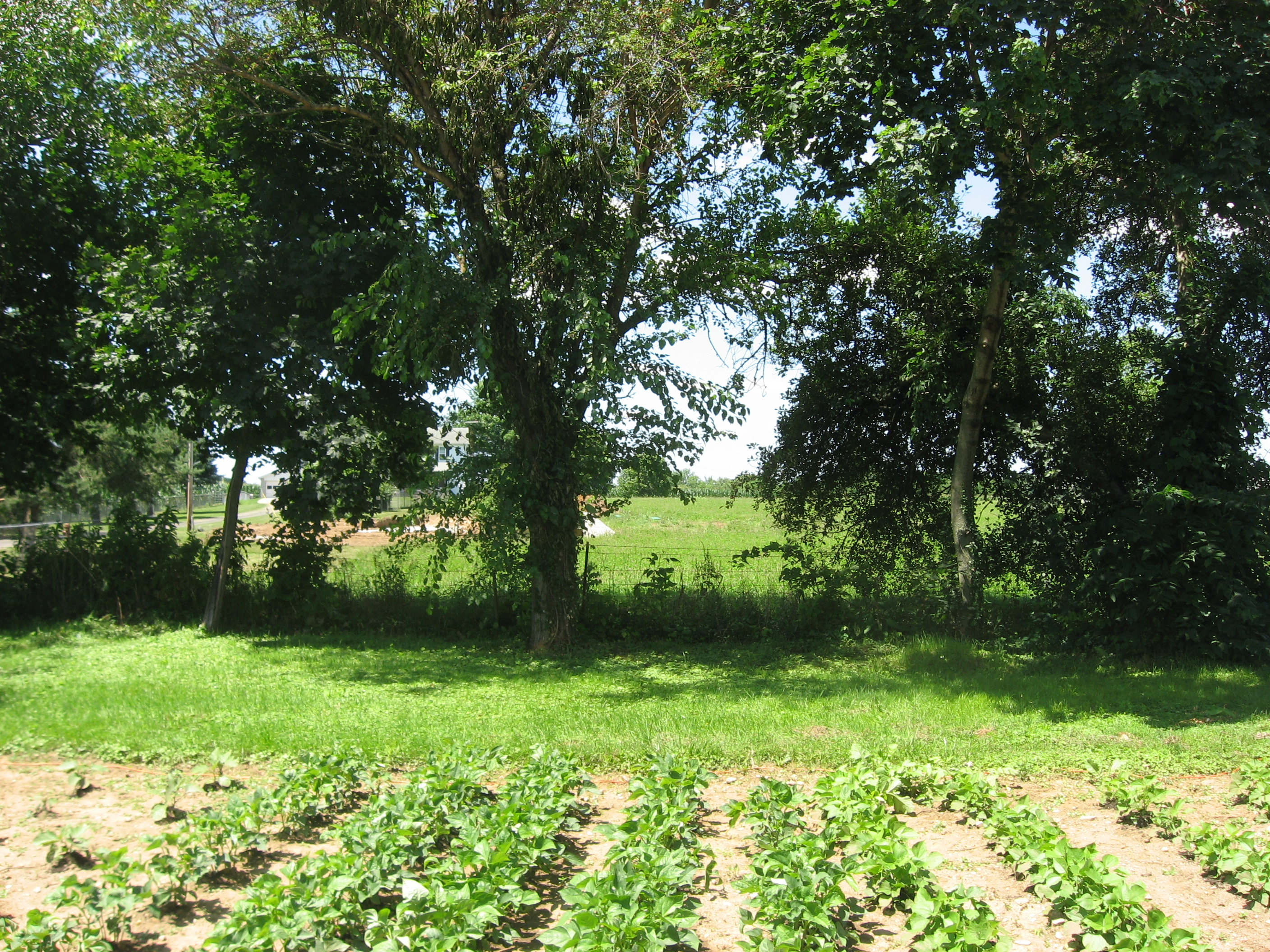 A garden (foreground) and fields (background) on the western side of Oldtown, an unincorporated community in Xenia Township, Greene County, Ohio, United States. The fields are part of the Old Chillicothe Site, where a Shawnee village once lay; here Simon Kenton ran the gauntlet. Today, it is recognized as a potential archaeological site and is listed on the National Register of Historic Places.